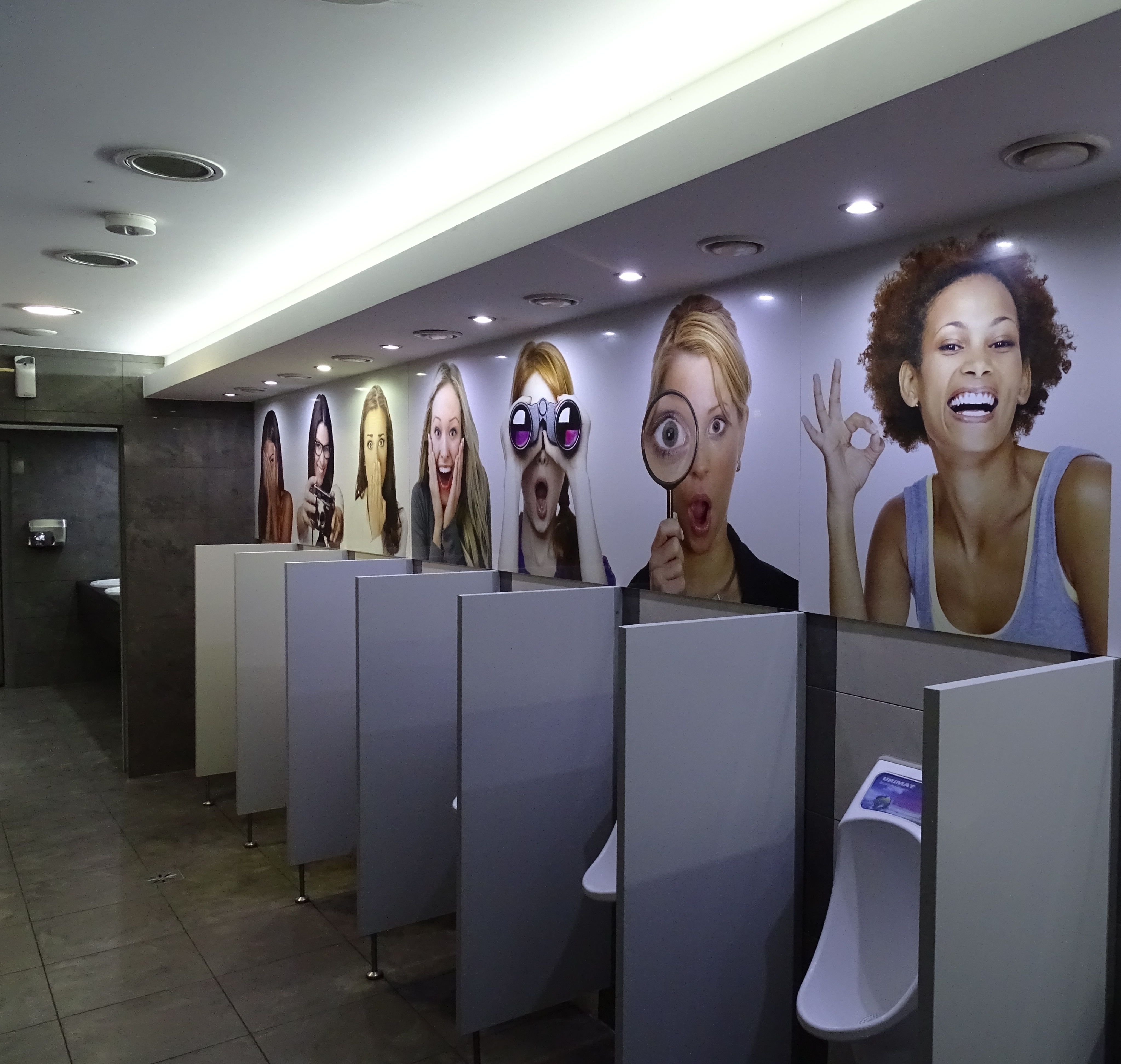 Public toilet at the Gdańsk Główny train station, Poland.